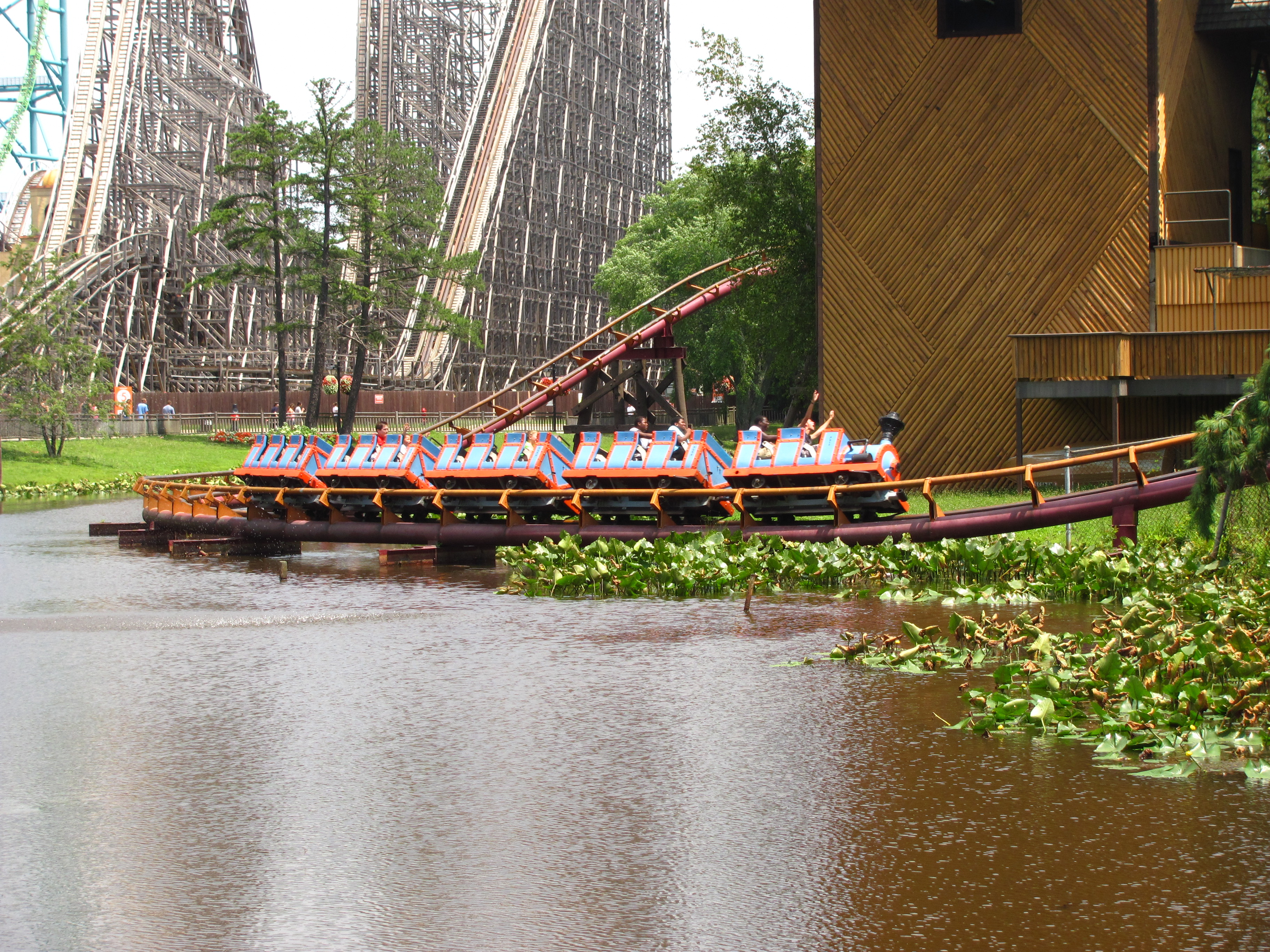 This final turn skims really close across the water. Sit on the left side of the train for maximum effect.